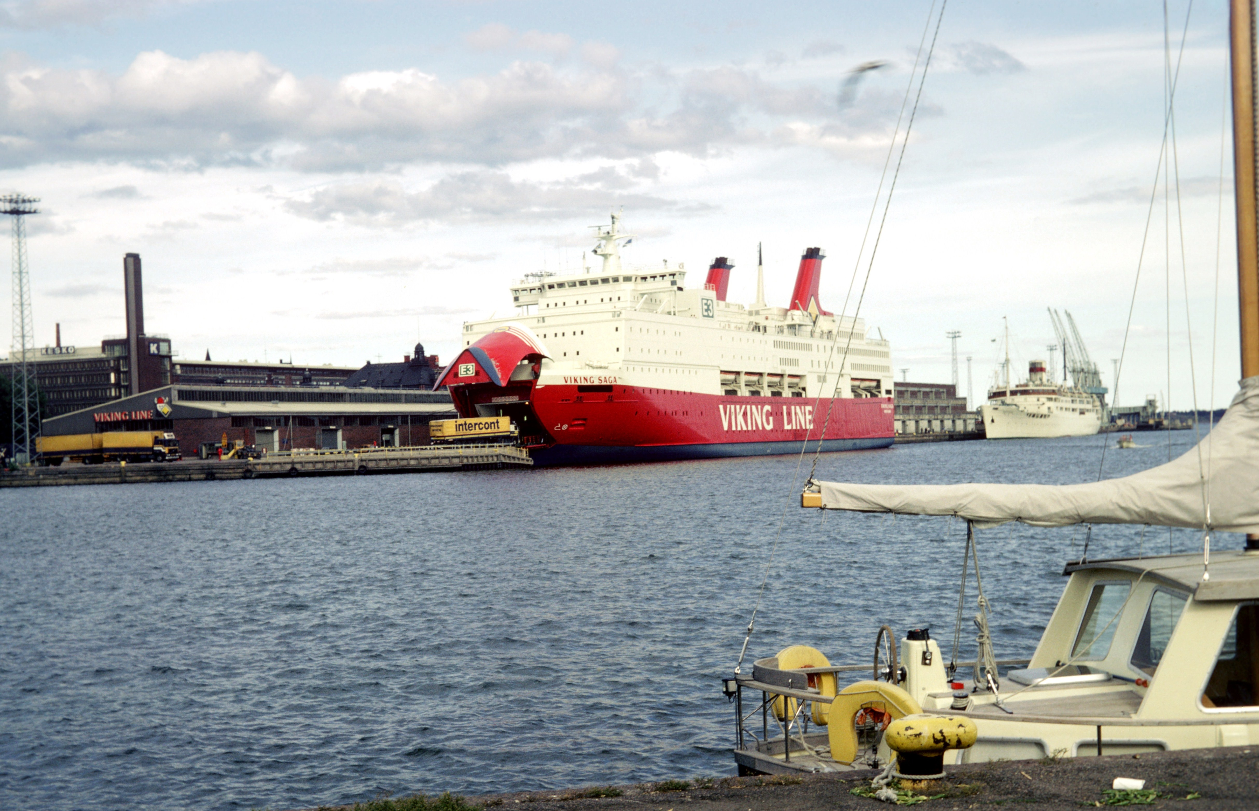 The ferry Viking Saga in the port of Helsinki, Finland. The vessel was constructed in 1980 for the Finnish company Rederi Ab Sally. IMO 7827213. The white ship in the background is most likely the Soviet liner Baltika built in 1940, scrapped in 1987.